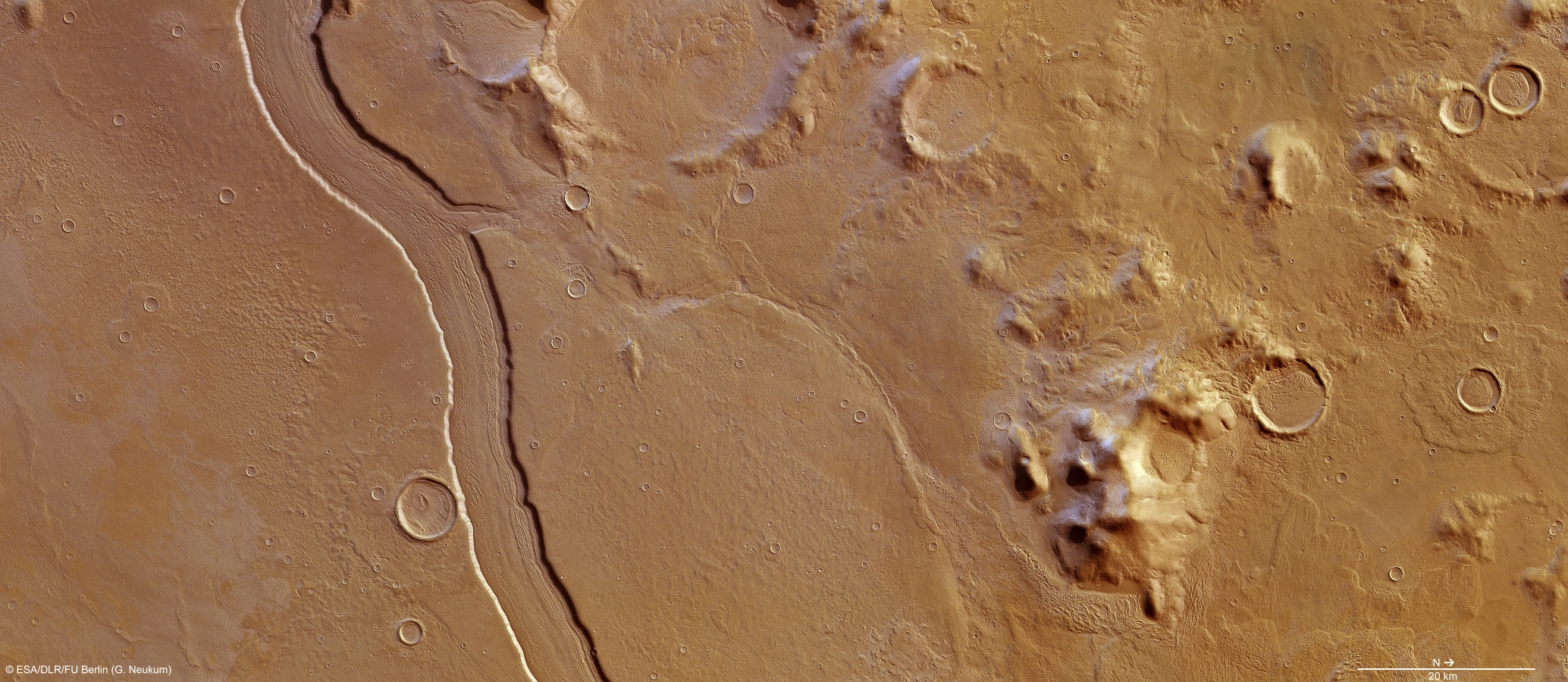 High-Resolution Stereo Camera (HRSC) nadir and colour channel data taken during revolution 10657 on 14 May 2012 by ESA’s Mars Express have been combined to form a natural-colour view of Reull Vallis. Centred at around 41°S and 107°E, the image has a ground resolution of about 16 m per pixel. The river-like channel is believed to have been formed by flowing water, which at some distant epoch cut through highland terrain and successively formed smooth plains. With a width of close to 7 km and a depth of around 300 m, the valley floor shows clear linear features believed to be ice-rich, and formed by debris and ice in a manner not dissimilar to the formation of glacial valleys on Earth. For more information and images from the latest MEX image release, please click here. Credit: ESA/DLR/FU Berlin (G. Neukum), CC BY-SA 3.0 IGO Copyright Notice: This work is licenced under the Creative Commons Attribution-ShareAlike 3.0 IGO (CC BY-SA 3.0 IGO) licence. The user is allowed to reproduce, distribute, adapt, translate and publicly perform this publication, without explicit permission, provided that the content is accompanied by an acknowledgement that the source is credited as 'ESA/DLR/FU Berlin’, a direct link to the licence text is provided and that it is clearly indicated if changes were made to the original content. Adaptation/translation/derivatives must be distributed under the same licence terms as this publication. To view a copy of this license, please visit